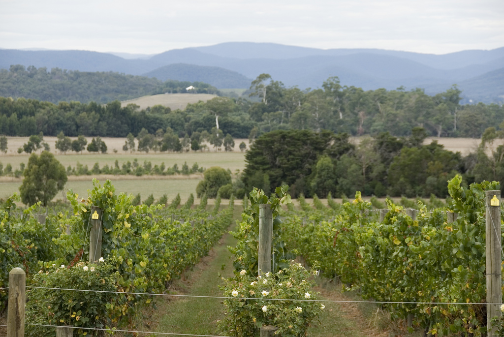 Photograph of the Yarra Valley wine region of Australia.